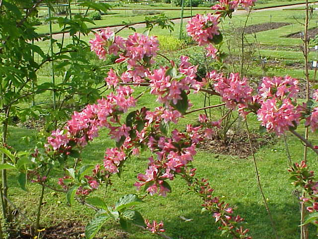 Species: Weigela florida Family: Caprifoliaceae Image No. 3